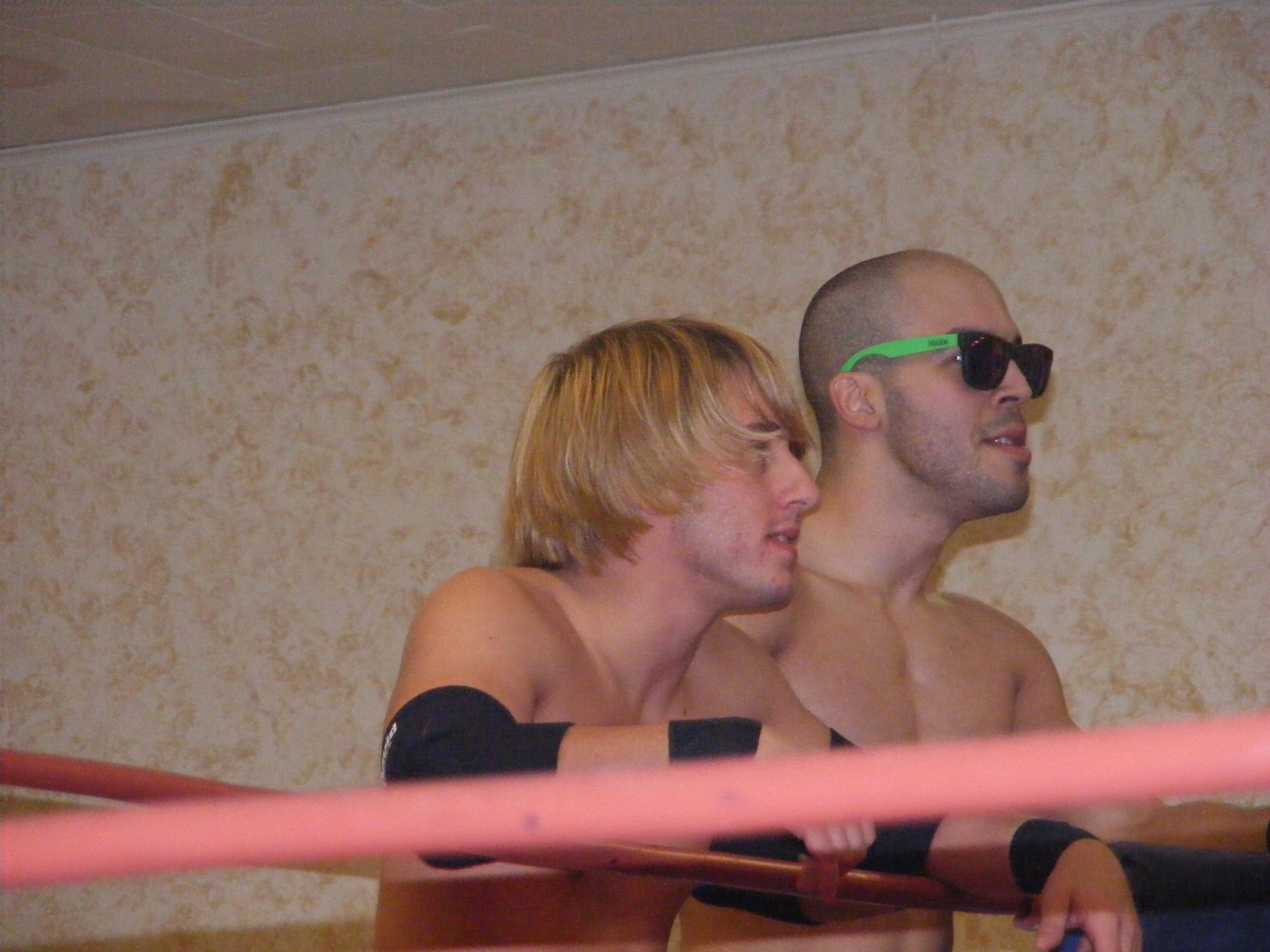 Cheech and Cloudy at ringside